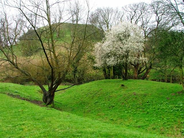 Castle Hill. Through the bare trees aligning the banks of the River Leven can be seen this artificial mound which gives its name to the local parish of Castle Levington. A lone early blossoming tree provides some colour. In the foreground the hollow indicates an earlier course of the river.